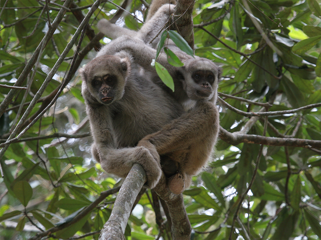 Northern muriqui (Brachyteles hypoxanthus) in Caratinga, Brazil.